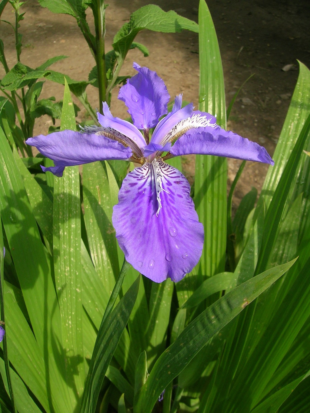 Thought to be Iris kumaonensis but Henry Noltie of RBG, Edinburgh notes that it is Iris tectorum (in cultivation from Munsiyari, India)